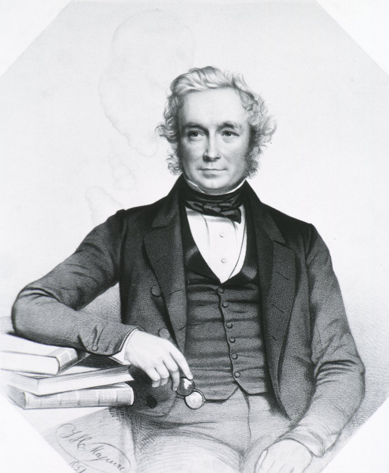 John Stevens Henslow, English botanist and geologist This is reproduced in Plate 13 of Makers of British botany (1913).